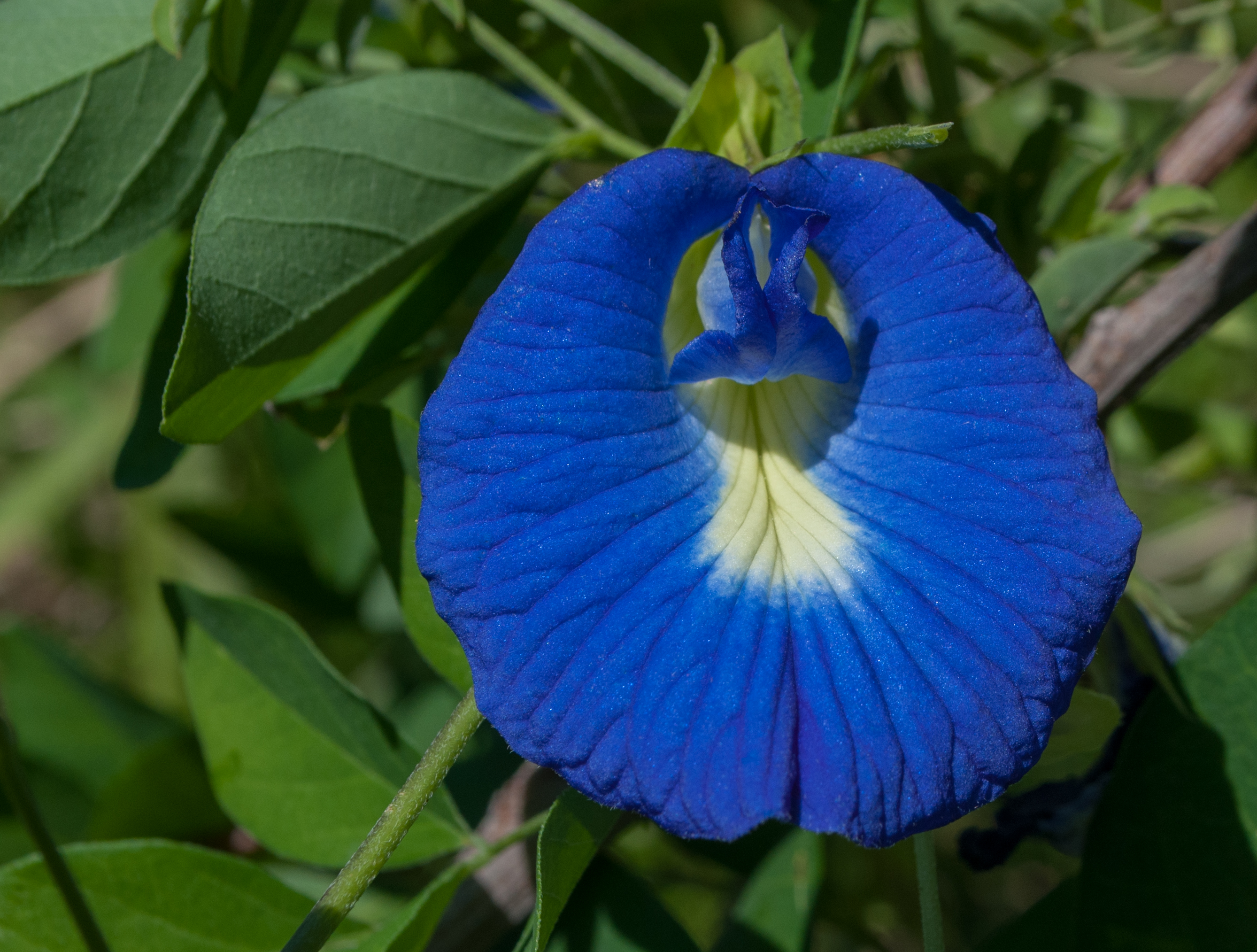 Clitoria ternatea from Margarita island